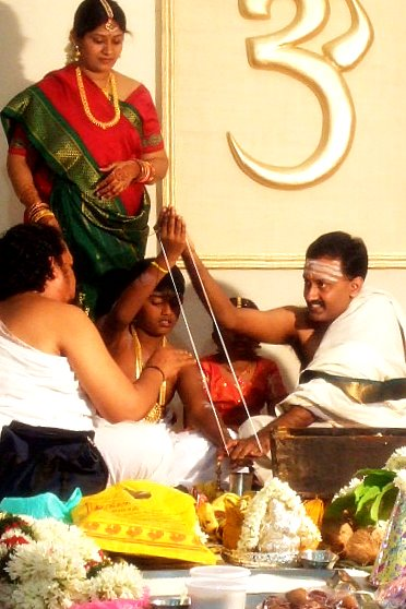 pranav's upanayam [thread ceremony]..an inititation into boyhood [the brahmacharya stage of brahmin life] The youngster is taught during the ceremony the secret of life through Brahmopadesam (revealing the nature of Brahman, the Ultimate Reality) or the Gayatri mantra. He then becomes qualified for life as a student or Brahmacharya, as prescribed in the Manusmriti.